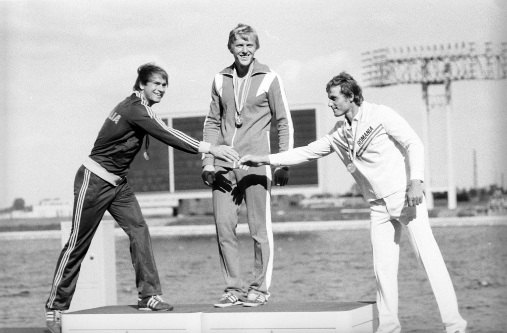 “Winners of 1980 Olympiad in rowing and canoeing (single sculls)”. Winners of the XXII Summer Olympic Games (July 19 - August 3, 1980) in rowing and canoeing, single sculls: 1st place - V. Parfenovich (USSR), 2nd place - J. Sumegi (Australia), 3rd place - V. Dyba (Romania).